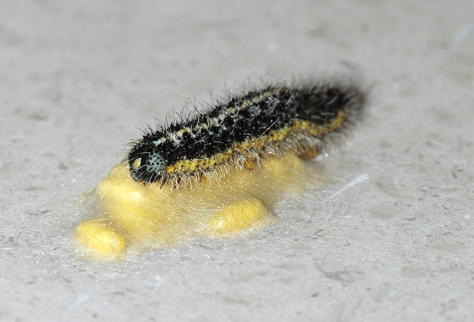 Caterpillar of the butterfly Pieris brassicae over the cocoons of the parasitoid wasp Apanteles glomeratus. The eggs were laid inside the catterpilar, the larvae eventually emerged from their host and spined the cocoons. The caterpillar is now partially eaten inside.